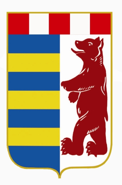 Coat of arms of Carpatho-Ruthenians of Croatia